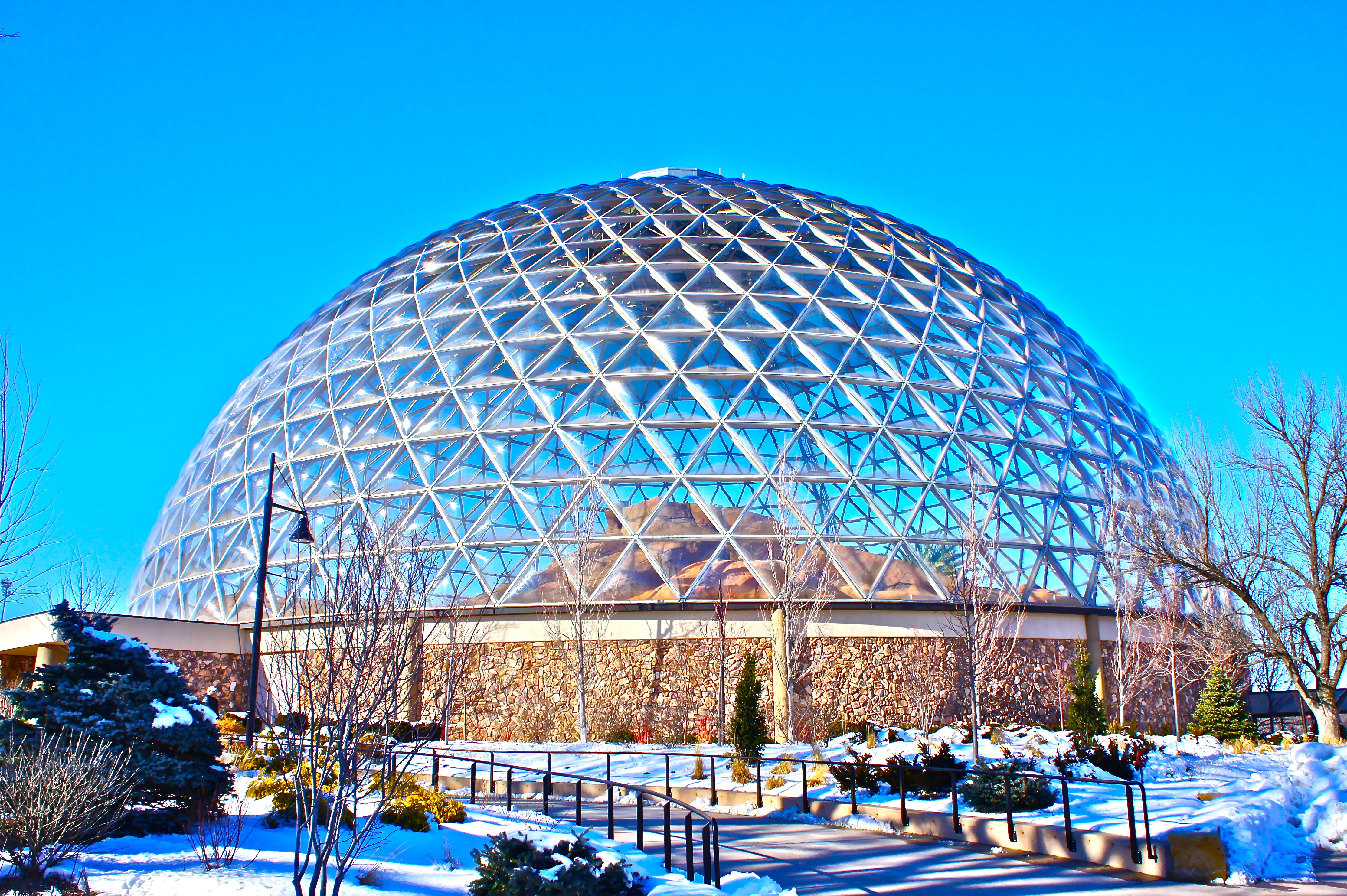 Desert Dome at the Henry Doorly Zoo and Aquarium